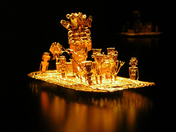 Muisca raft, representation of the initiation of the new Zipa in the lake of Guatavita, possible source of the legend of El Dorado. It was found in a cave in Pasca, Colombia in 1856, together with many other gold objects. It is 19.5 cm long, 10.1 cm wide and 10.2 cm high. Dated between 1200 and 1500 BC. It is made of an alloy of gold (80%), silver and copper, by using the lost wax method. The cacique in the center is surrounded by attendants and oarsmen. Colombia Official Tourism Portal